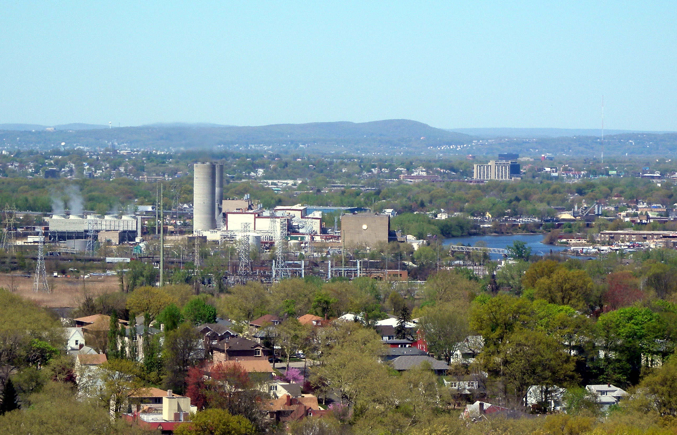 Looking northwest, full zoom, across Hackensack Valley from Bergen Avenue at Bergen Generating Station and the First Watchung Range beyond, on a sunny midday.